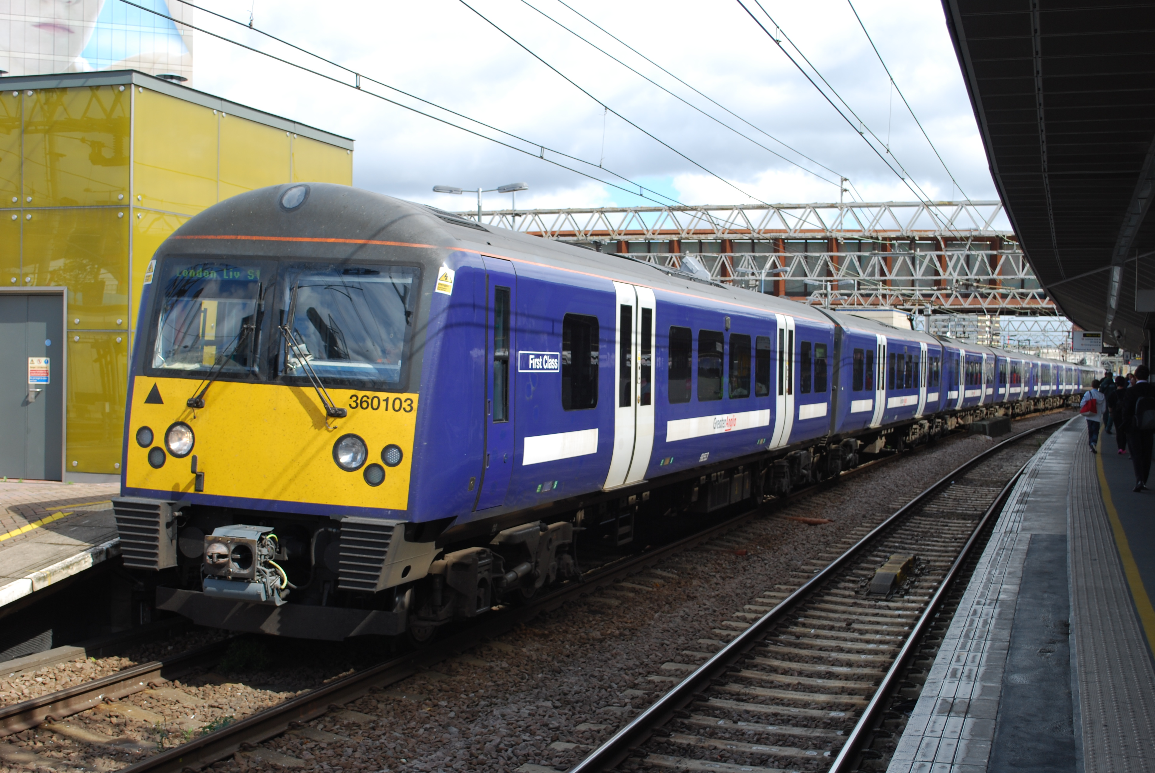 Siemens (Wien & Uerdingen) Class 360/0 "Desiro" 25k v ac overhead 4-car emu No.360 103 of Greater Anglia in GA-branded Interim National Express East Coast/First Great Eastern livery at Stratford on a Clacton - Liverpool service, 08/12.